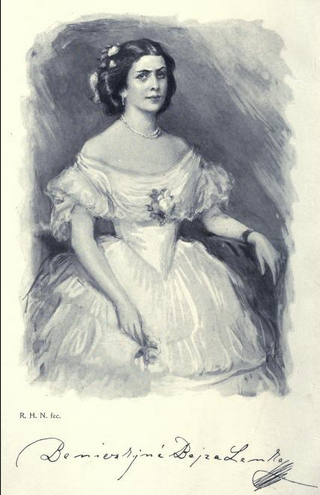 Portrait of Beniczkyne Bajza Lenke